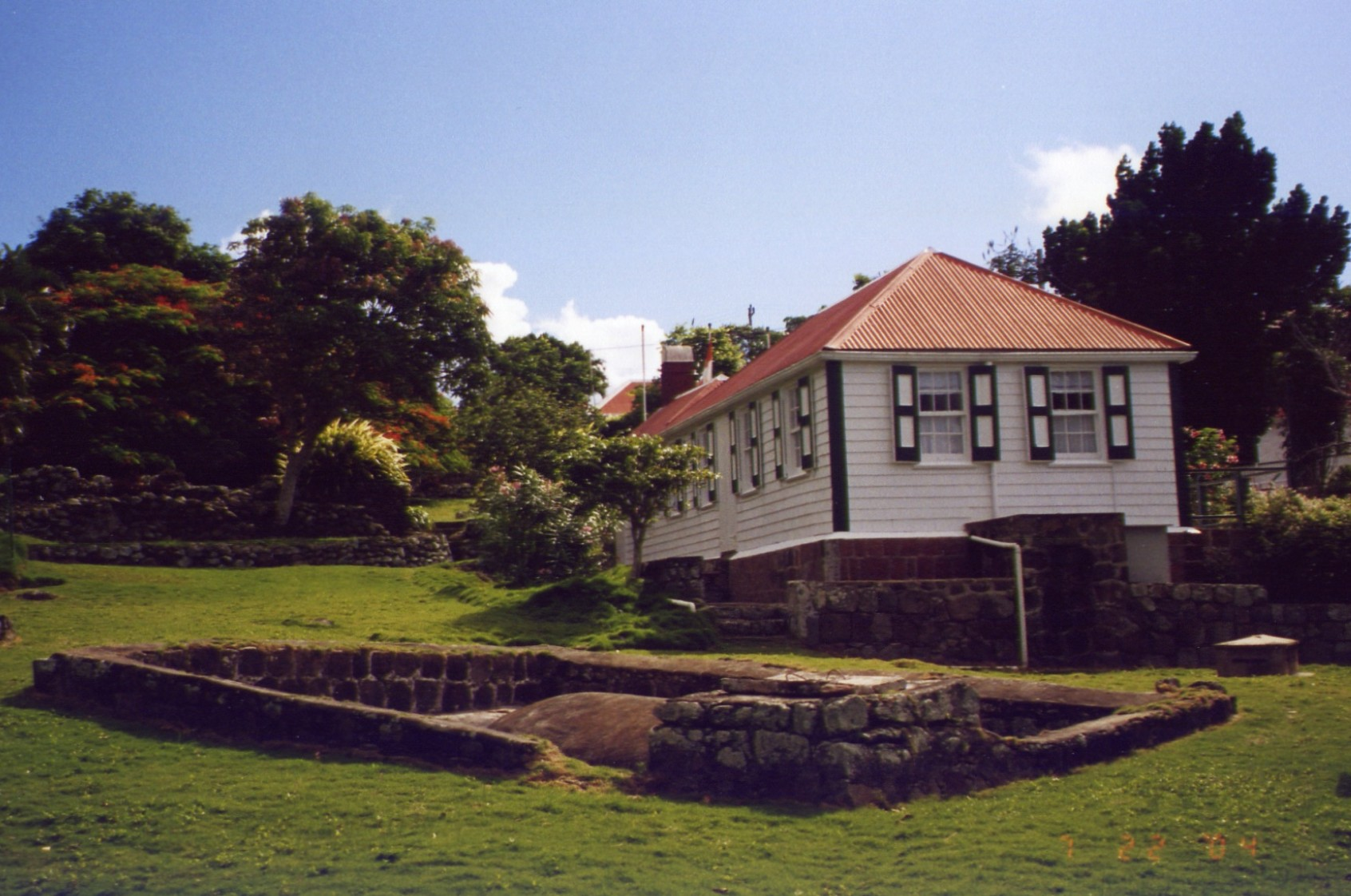 Harry L. Johnson Museum in Windwardside, Saba, Netherlands Antilles